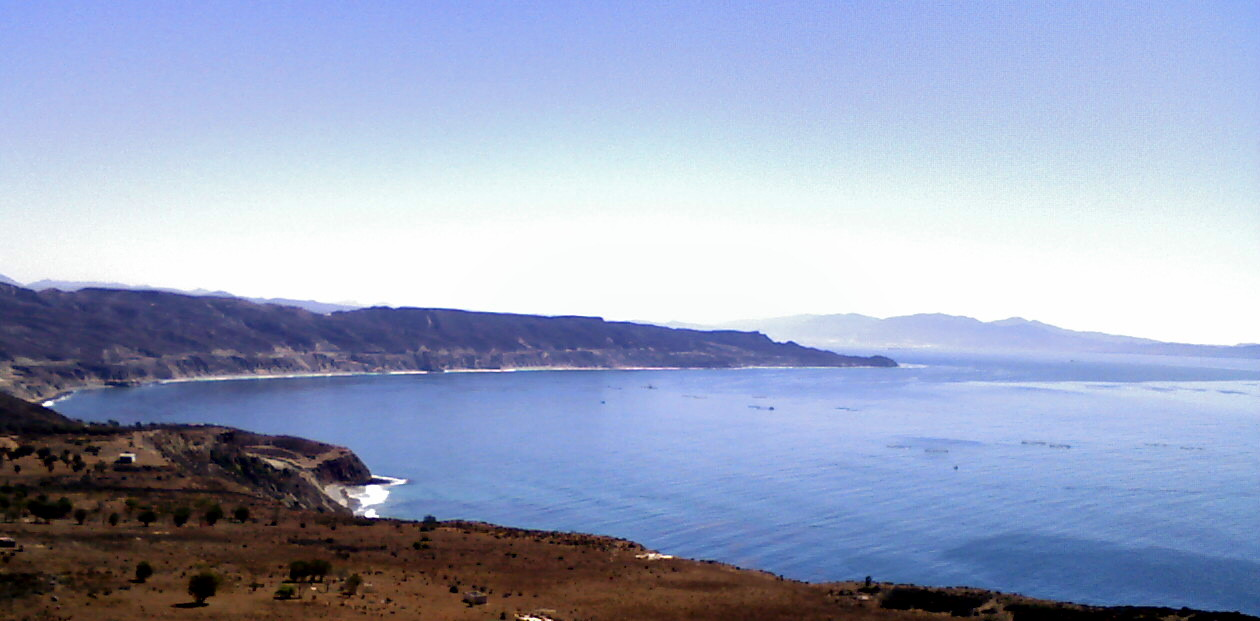 Ensenada Bay—Bahia de Ensenada, within Bahia Todos Los Santos. In the Municipality of Ensenada—Municipio de Ensenada, Baja California state, northern Baja California Peninsula, Mexico.